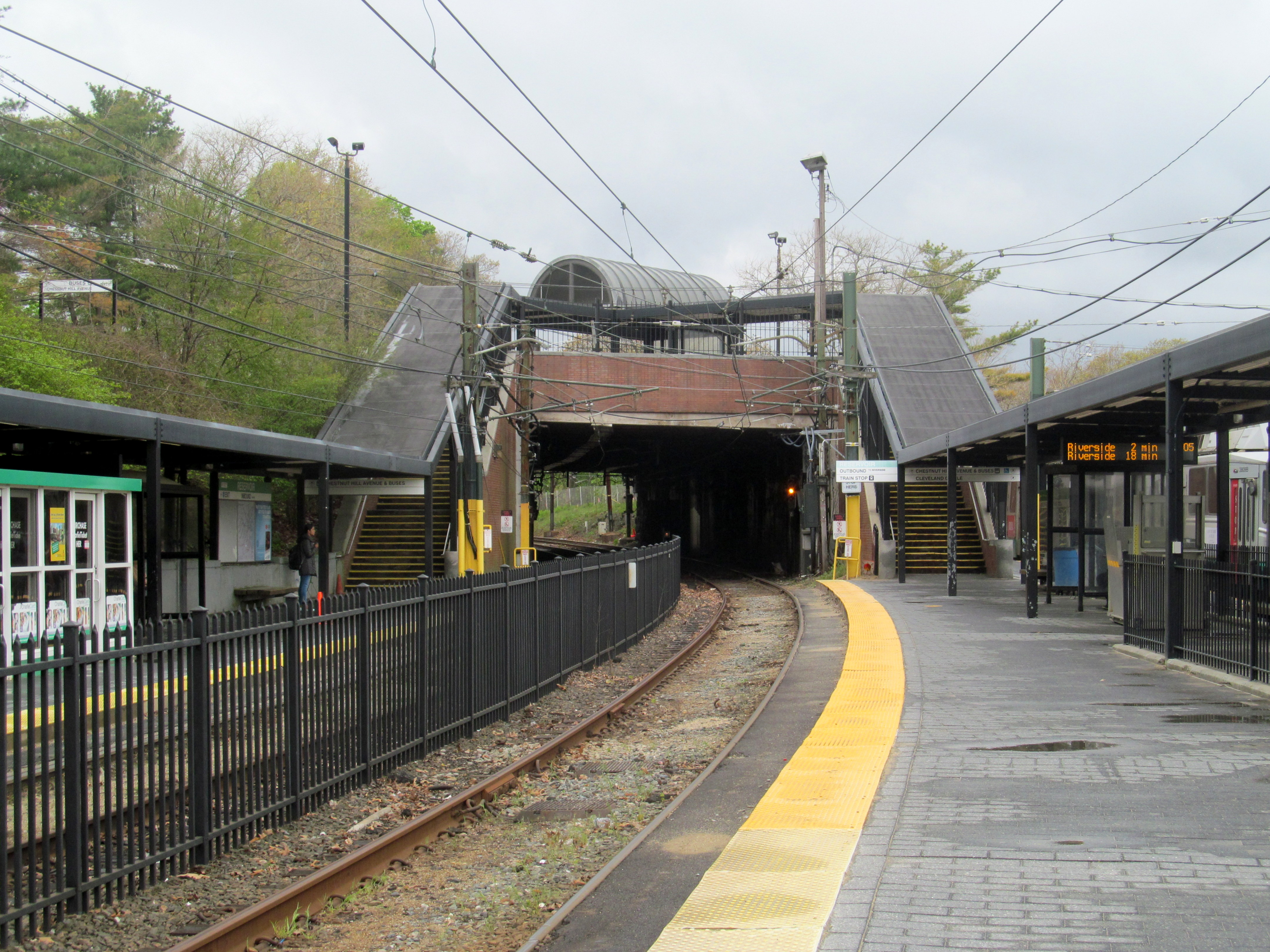 Reservoir station in May 2016